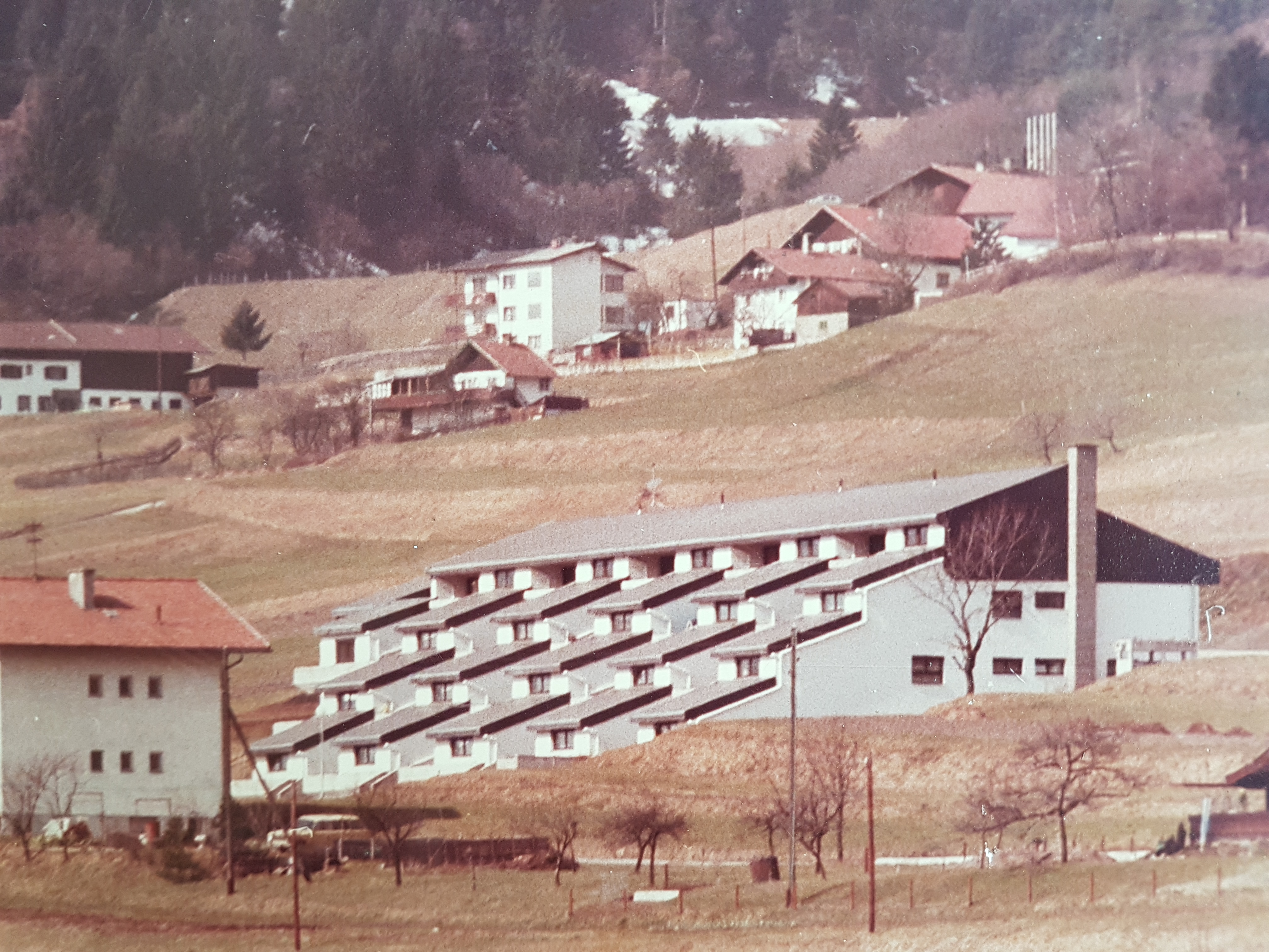 Terracehouse Kalkofenweg, Innsbruck, Mag.Arch.G.Widmann